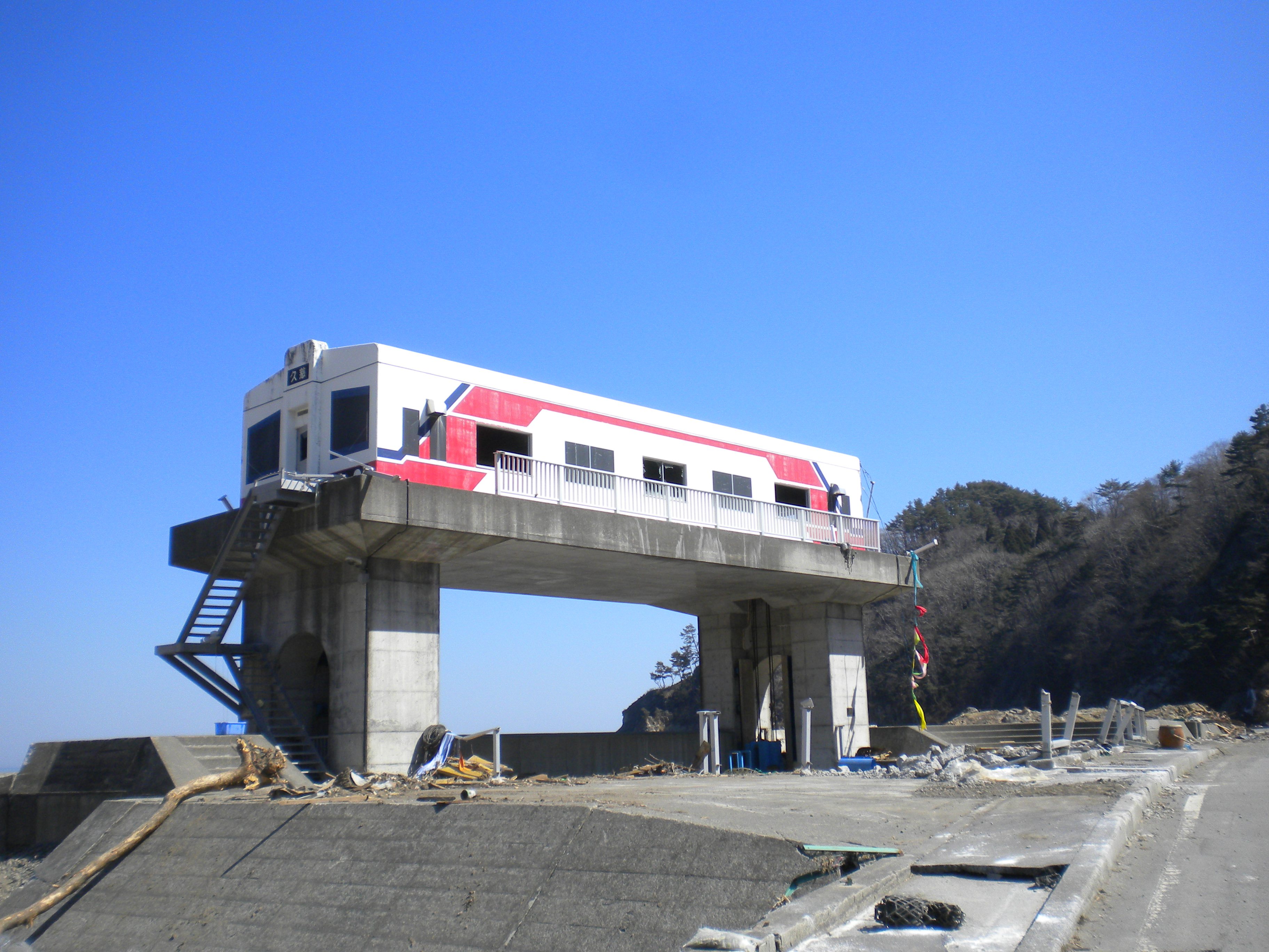 A Sanriku Railway Train-shaped sluice on Hiraiga river near Tanohata Station in Tanohata, Iwate.